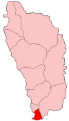 Map of Dominica showing Saint Mark parish.